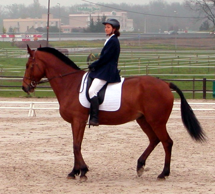 Pigeon-breasted horse, with the sternum protruding.